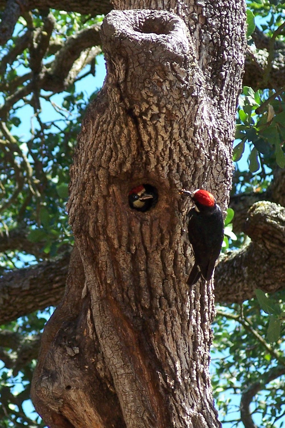 Acorn Woodpecker (Melanerpes formicivorus). Male feeding baby. Made in San Jose, California.